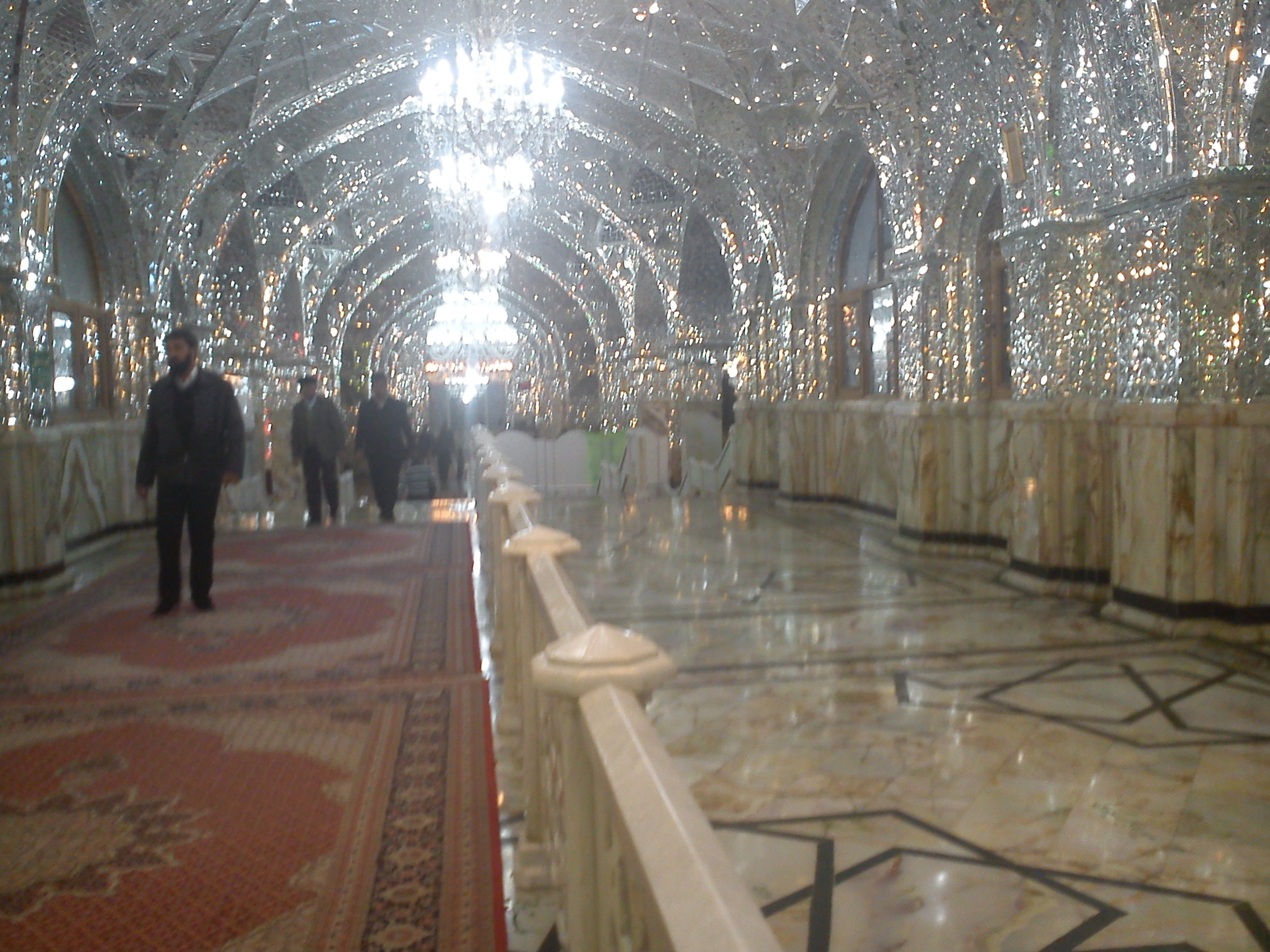 Shah-Abdol-Azim shrine